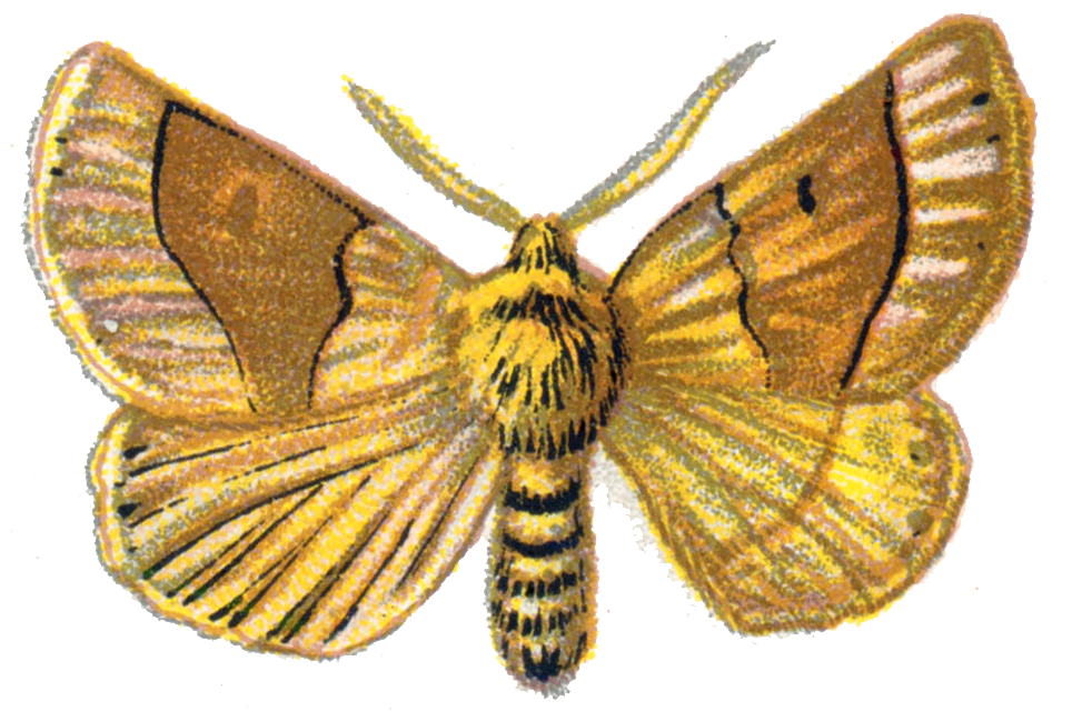 Scalloped Oak